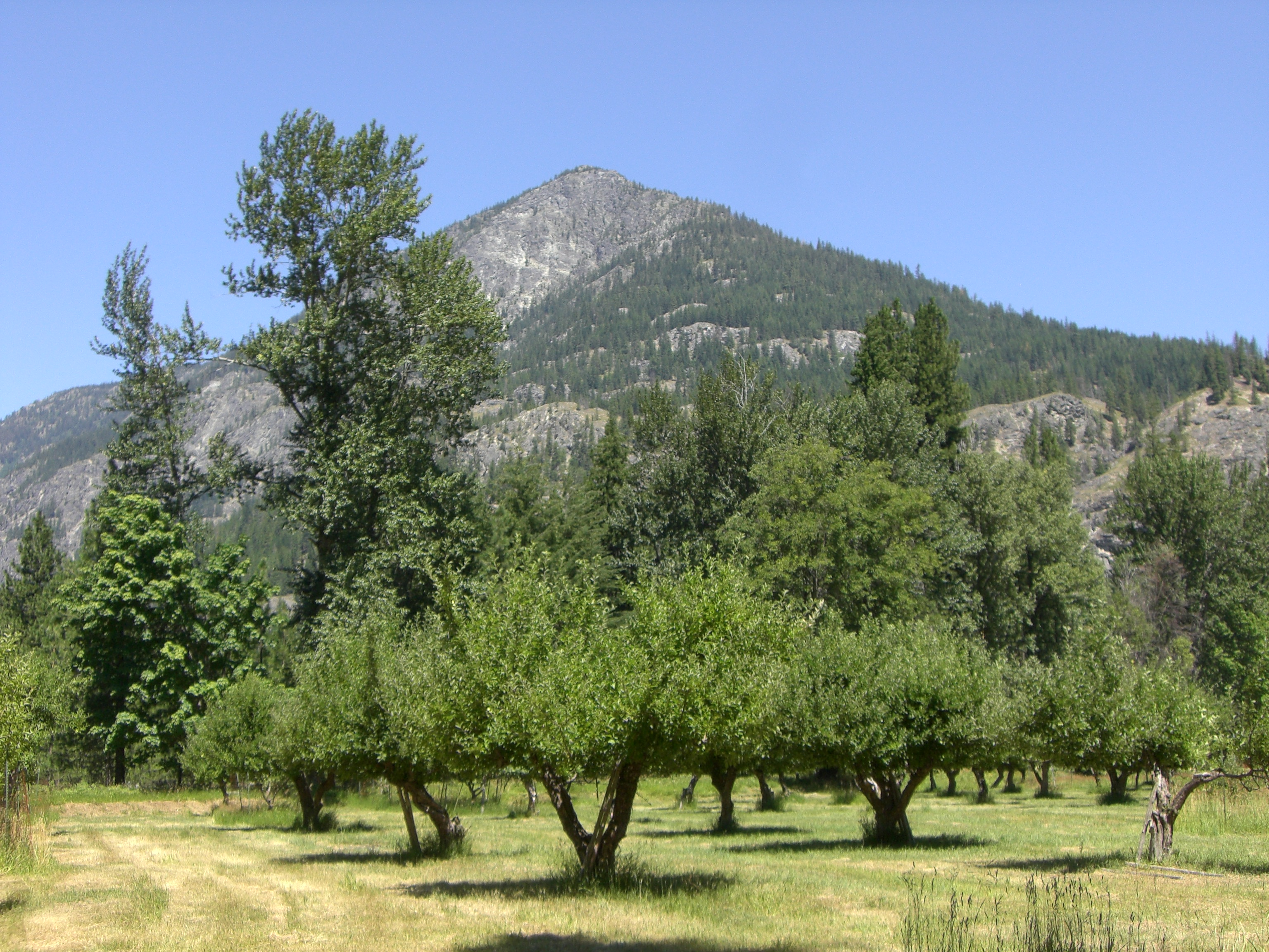 A view of Buckner Homestead Historic District. An apple orchard; in the Lake Chelan National Recreation Area near Stehekin, Washington State.